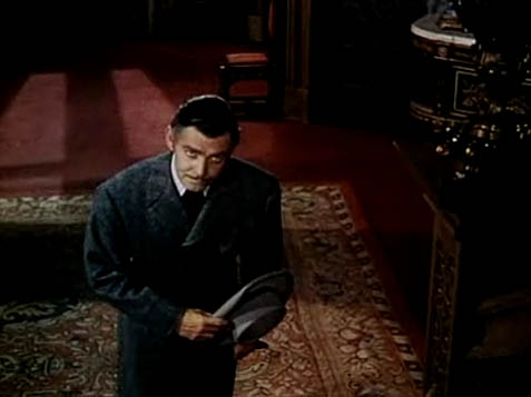 Cropped screenshot of Clark Gable from the trailer for the film Gone with the Wind